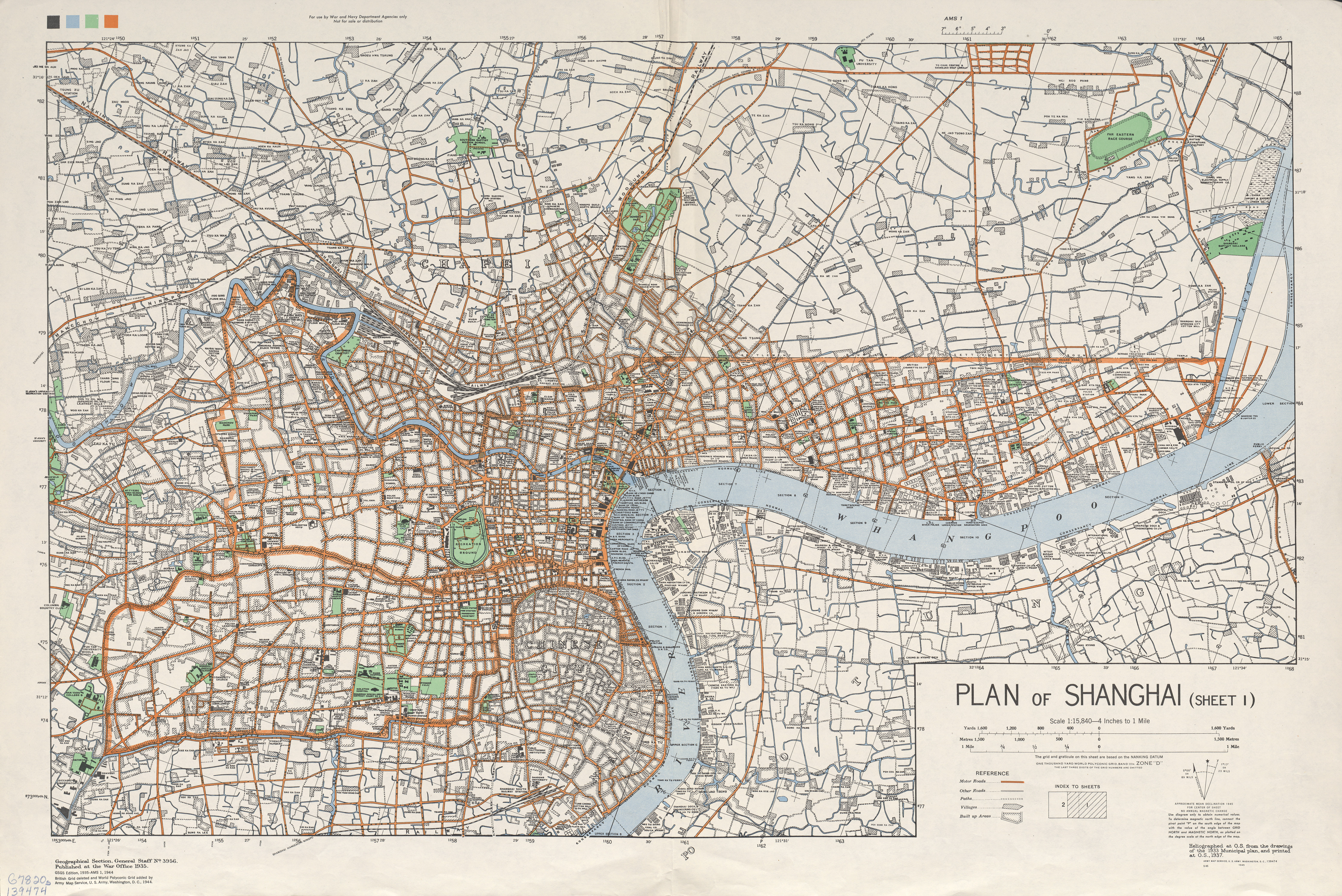 Map of central Shanghai. Printed by the British War Office / US Army Map Service.